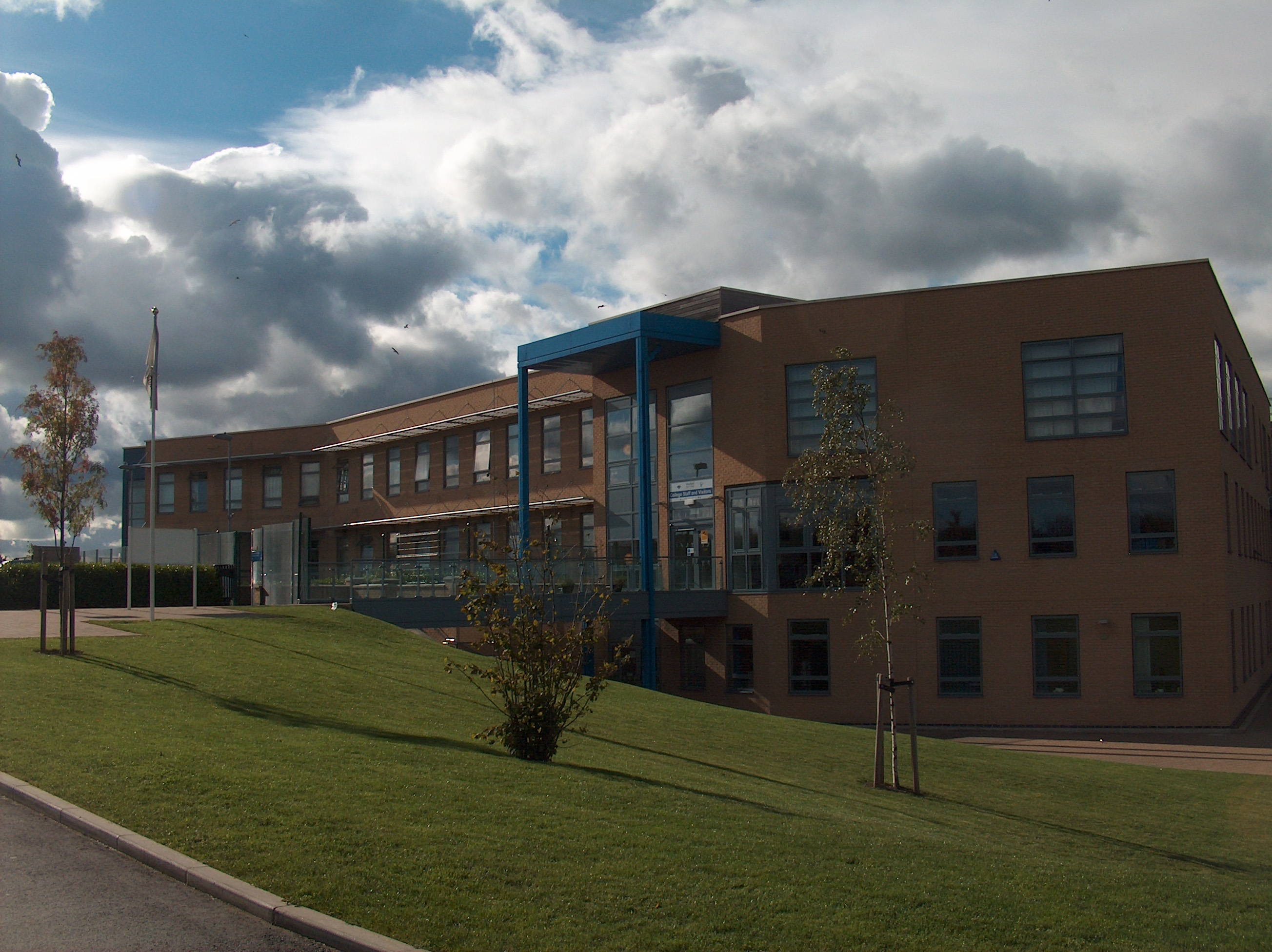 Westfield Sports College - Main Administrative Block